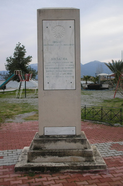 Macedonian settlers, of Atalanti's region, column of memory.